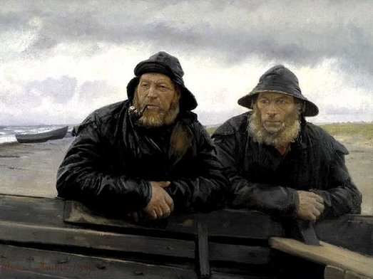 (click image for larger than here)